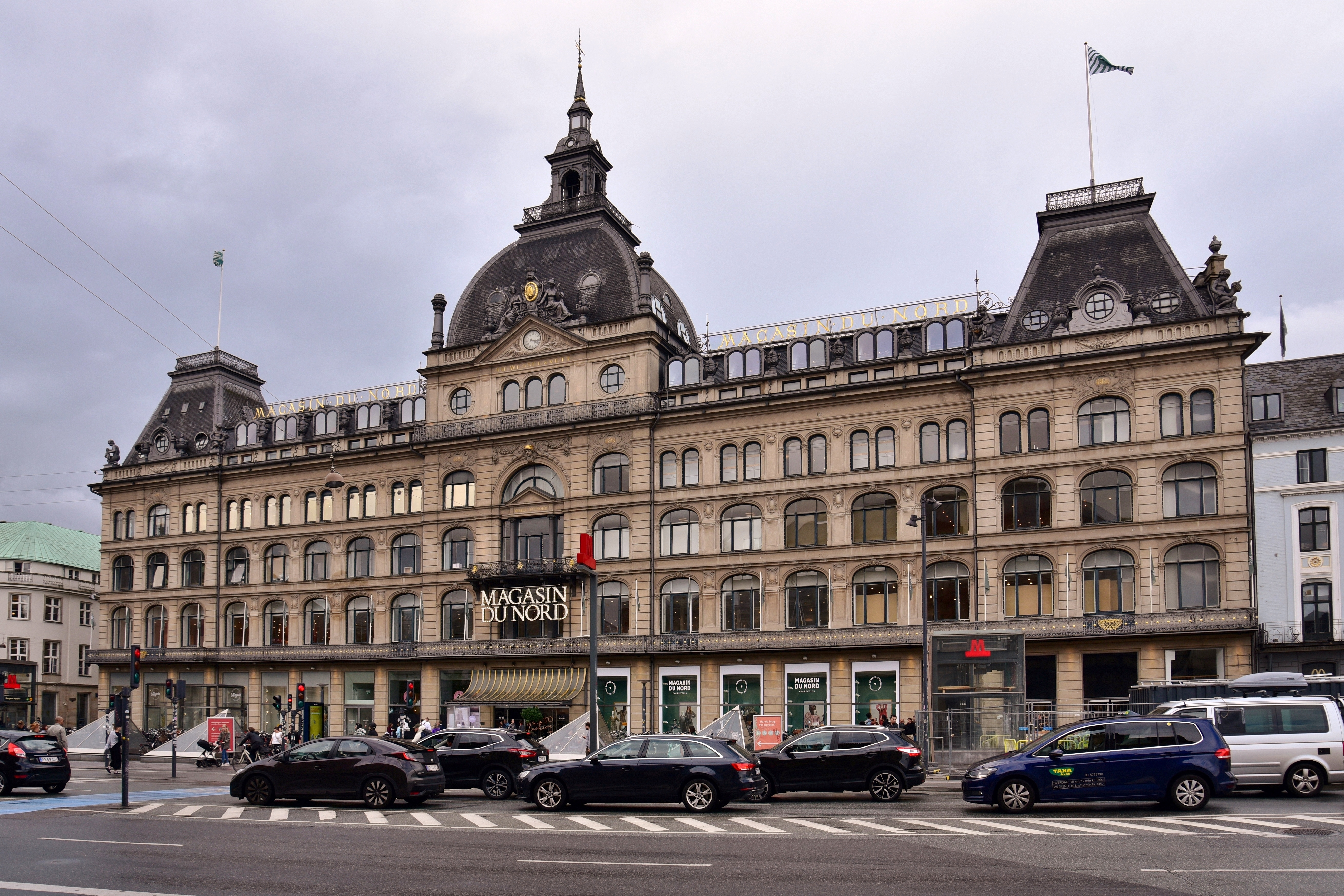 View of Magasin du Nord, a department store in Copenhagen